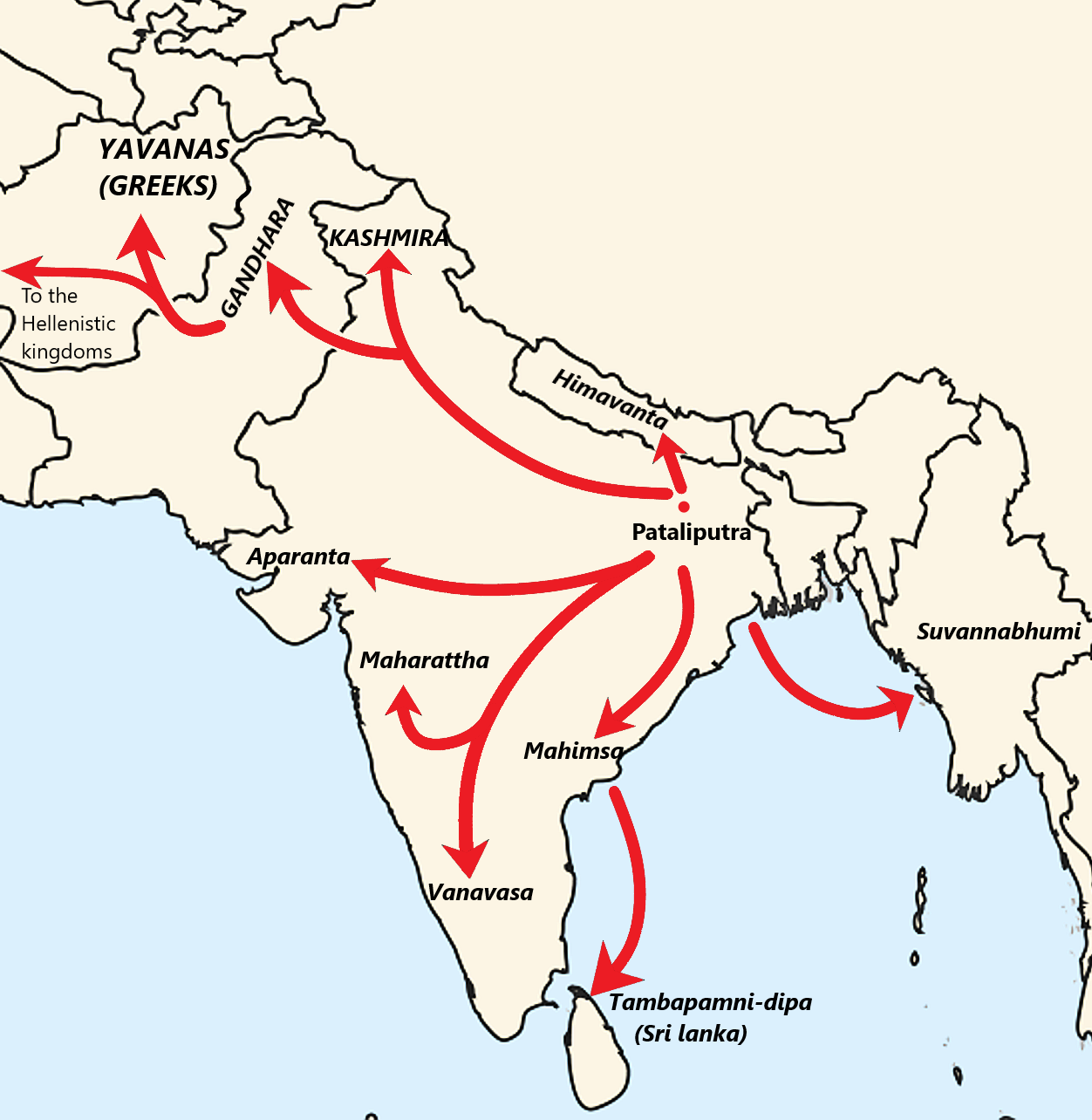 Map of the Buddhist missions during the reign of Asoka. Sourced fromː Cousins, LS. "On the Vibhajjavadins. The Mahimsasaka, Dhammaguttaka, Kassapiya and Tambapanniya branches of the ancient Theriyas", Buddhist Studies Review 18, 2 (2001), TABLE E.